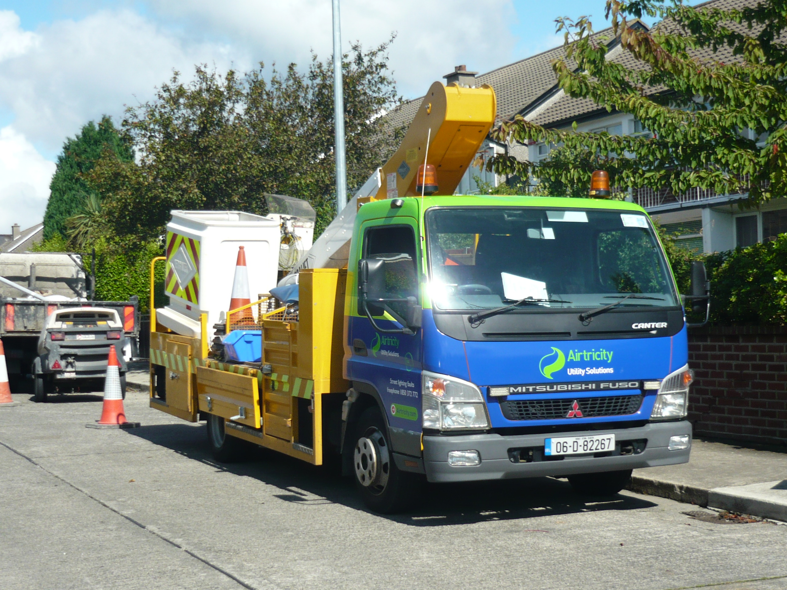 Airtricity High Reach Vehicle